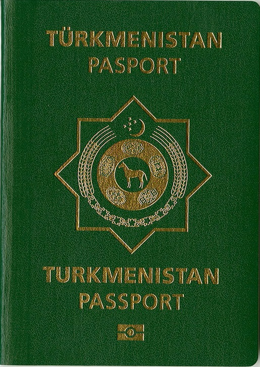 Turkmenistan biometric passport 2008